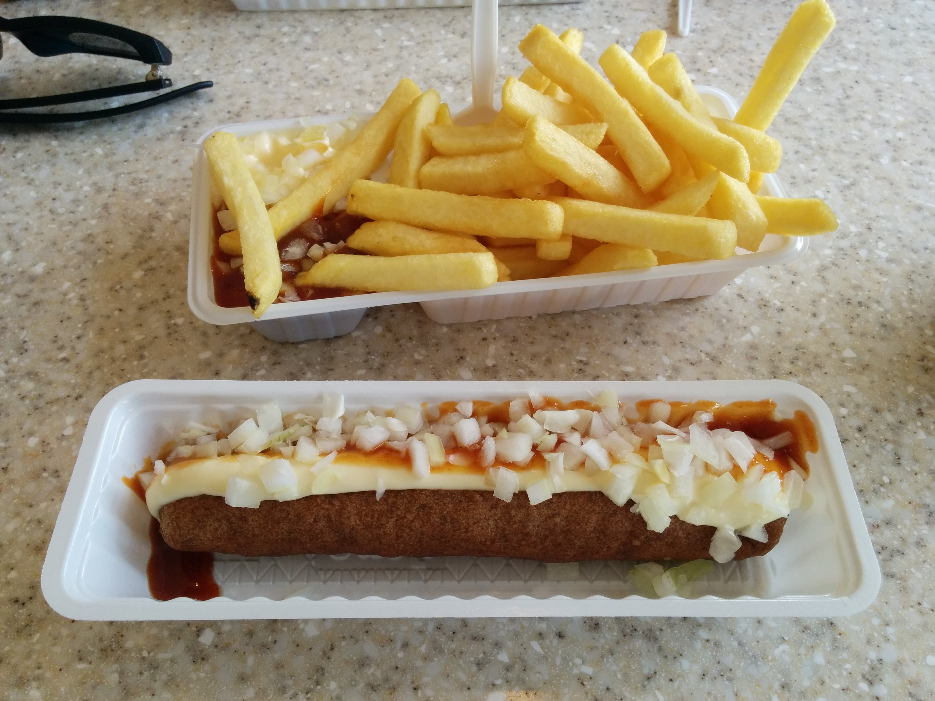 Frikandel is a Dutch and Belgian snack, a sort of minced-meat hot dog. (source Wikipedia)